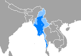 Geographic Range of Burmese Majority language Official language but spoken by a minority